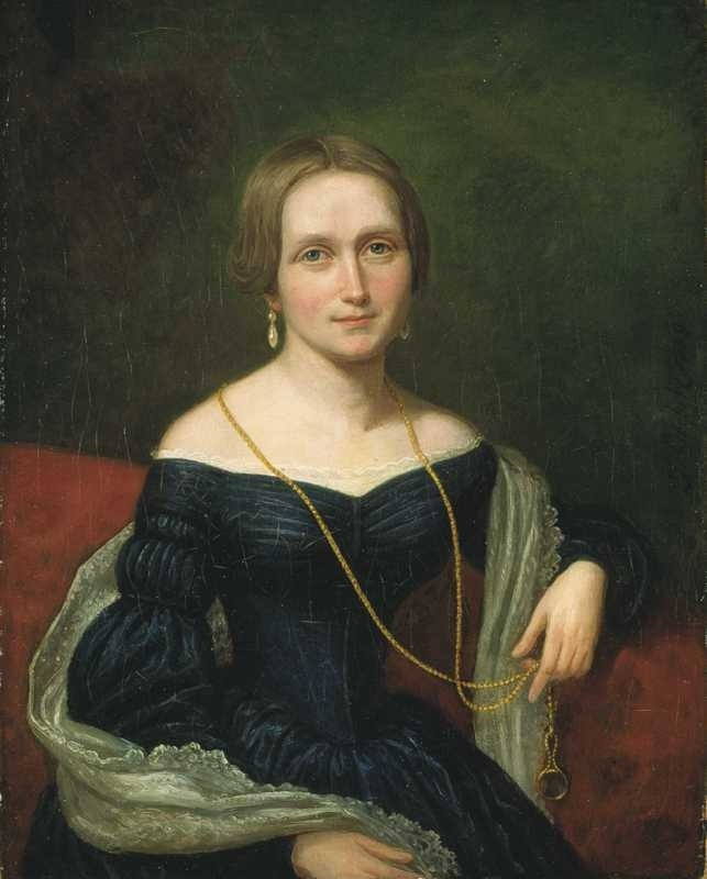 Portrait of the Norwegian author Camilla Collett (1813-1895)